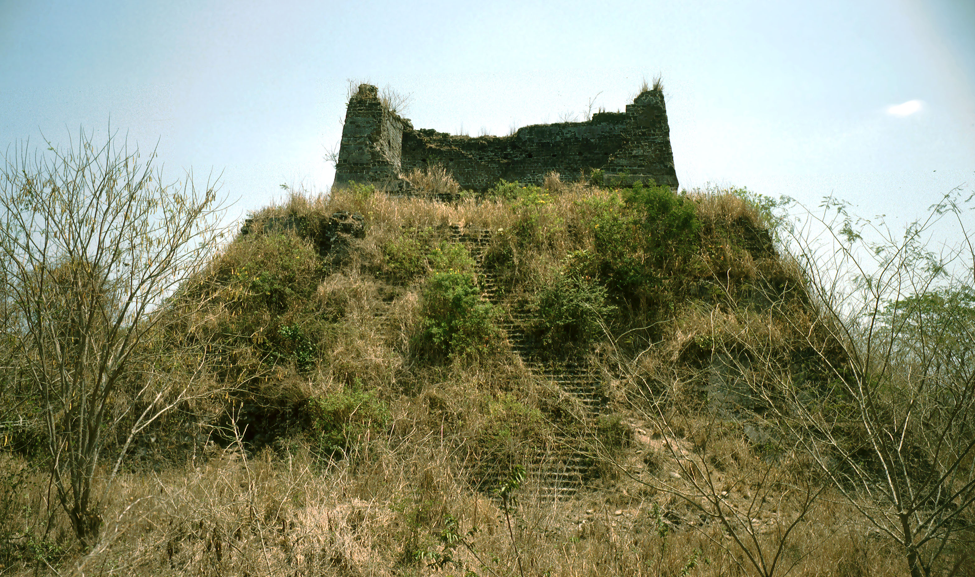 Santiago Huatusco, Veracruz, Mexico: pyramid "El Fortín".